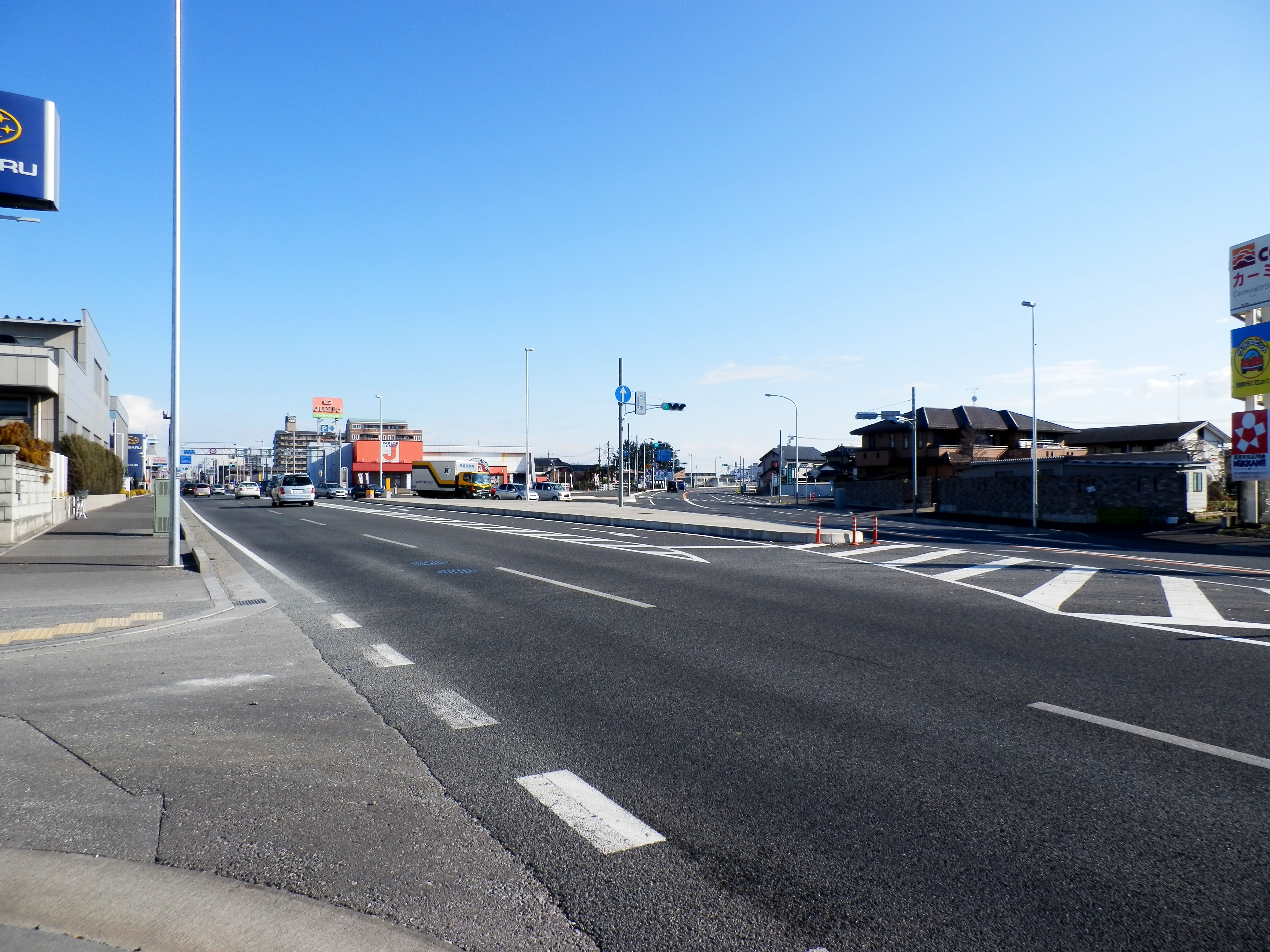 Nishihara junction (Ending point of Japan National Route 119)